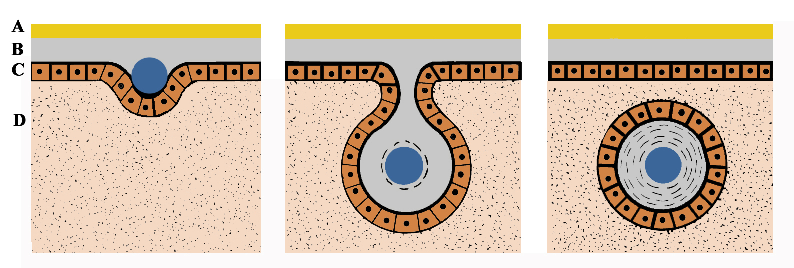 The stages formation of pearls sac with pearl inside A - outer layer of the shell, B - nacreous layer, C - epithelial layer of mantle, D - mantle.